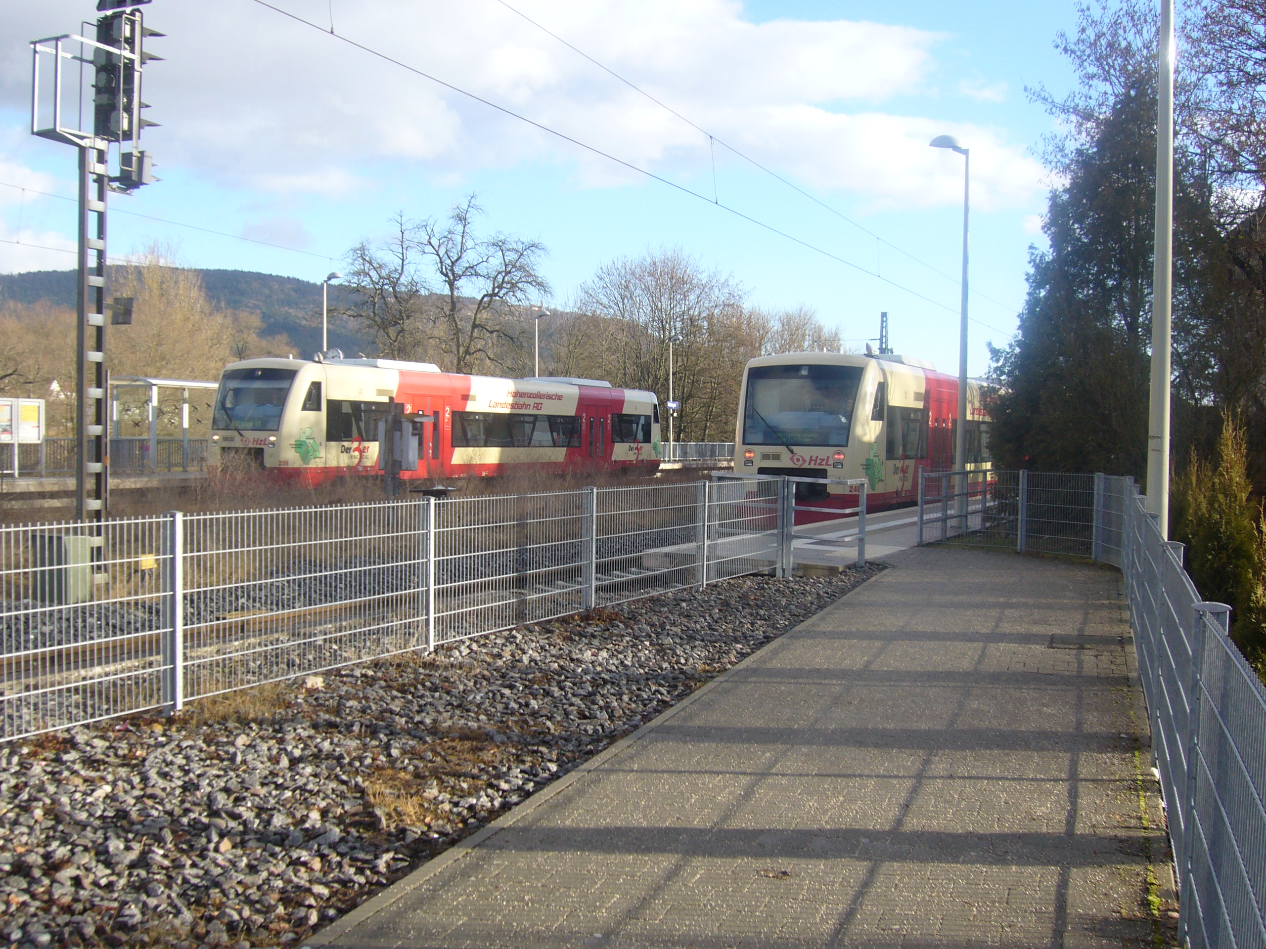 two Ringzug trains at Aldingen, Germany